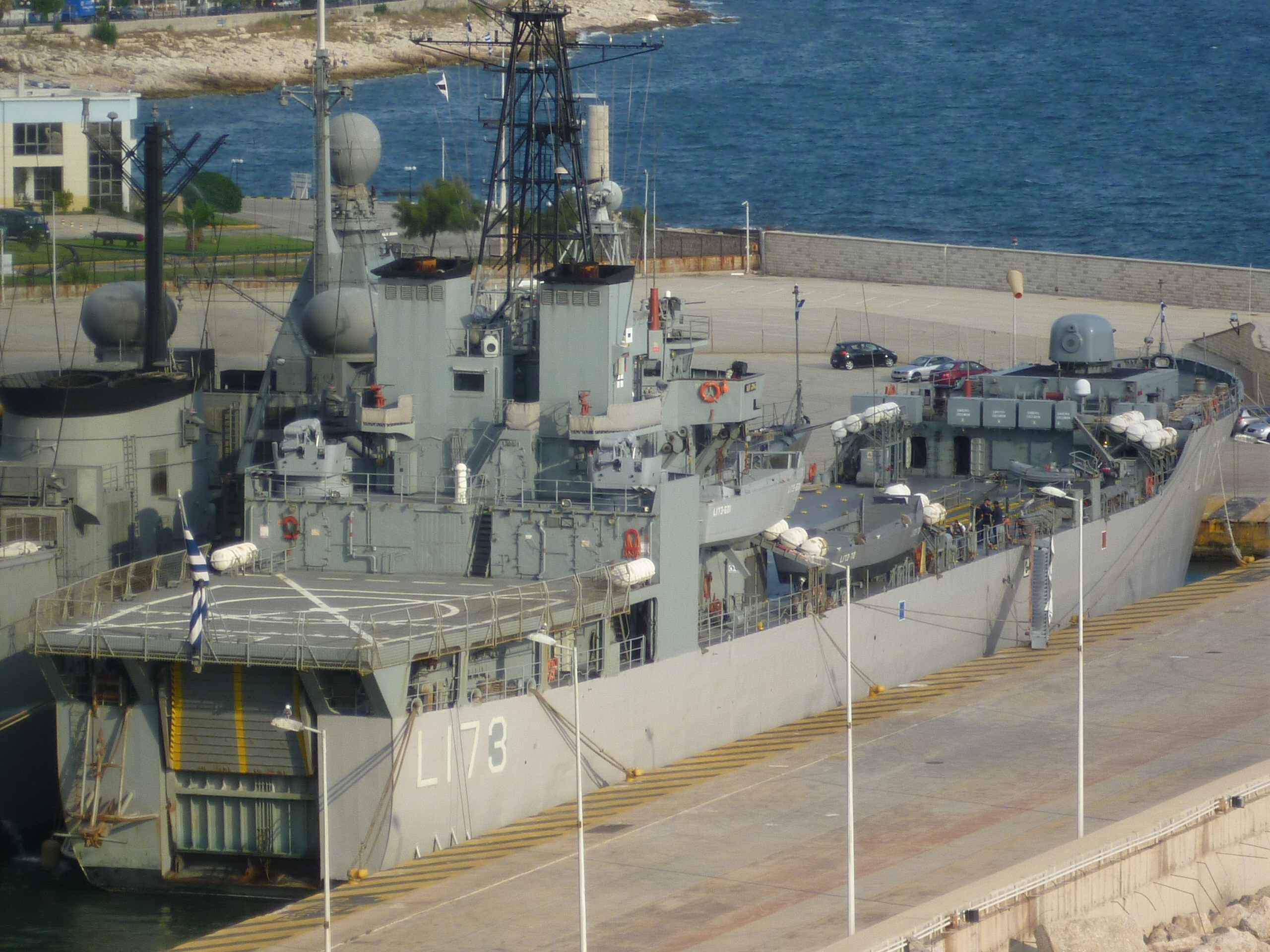 Greek LST HS Chios (L173) at Piraeus. Alongside lies the frigate HS Themistokles (F465)